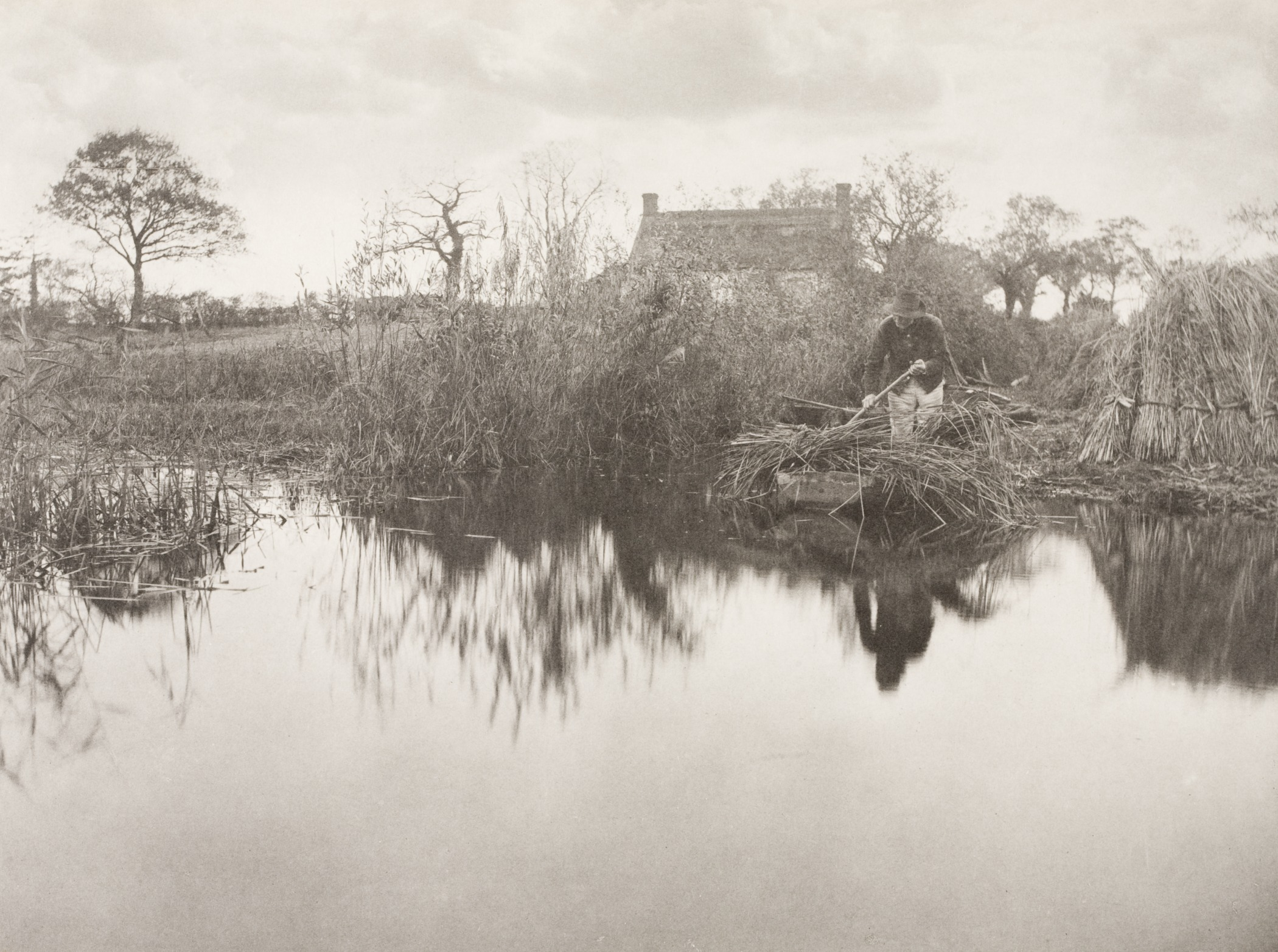 England, 1886 Plate: Plate XXXIV Photographs Platinum print Unframed: 11 3/8 x 16 1/4 in. (28.89 x 41.28 cm) Gift of Sue and Albert Dorskind (AC1996.165.262) Photography